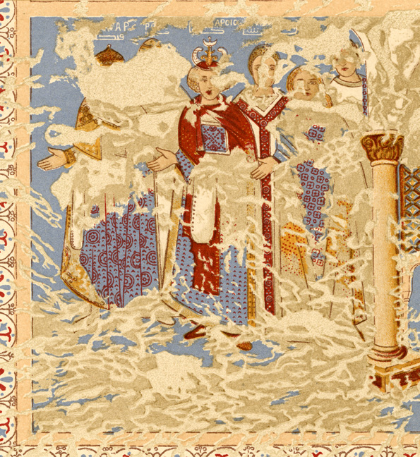 Drawing of six kings. Reproduced from Alois Musil. Kusejr 'Amra und Schlösser östlich von Moab. Vol. 2, pl. XXVI. Vienna, 1907. The original is a fresco, 705–15. West wall, hall, Qusayr ‘Amra, Jordan. Reproduced from Alois Musil. Kusejr ‘Amra und Schlösser östlich von Moab. Vol. 2, pl. XXVI. Vienna, 1907 A particularly dramatic scene depicts six kings in elaborate headgear, four of which feature bilingual inscriptions in Arabic and Greek listing: "Kaisar," or Byzantine emperor (caesar), the Sasanian shah "Kisra" (Khusro), "Negus" or King of Ethiopia, and "Roderick," the Visigothic king. It has been posited that the two kings that are not identified in the inscription were the ruler of China and a Turkic leader. All six figures gesture in supplication toward the spot in the hall where the caliph would presumably have been seated. The intricate arrangement of this and other scenes hint at narrative, suggesting now-lost associations drawn from epic poetry or song.